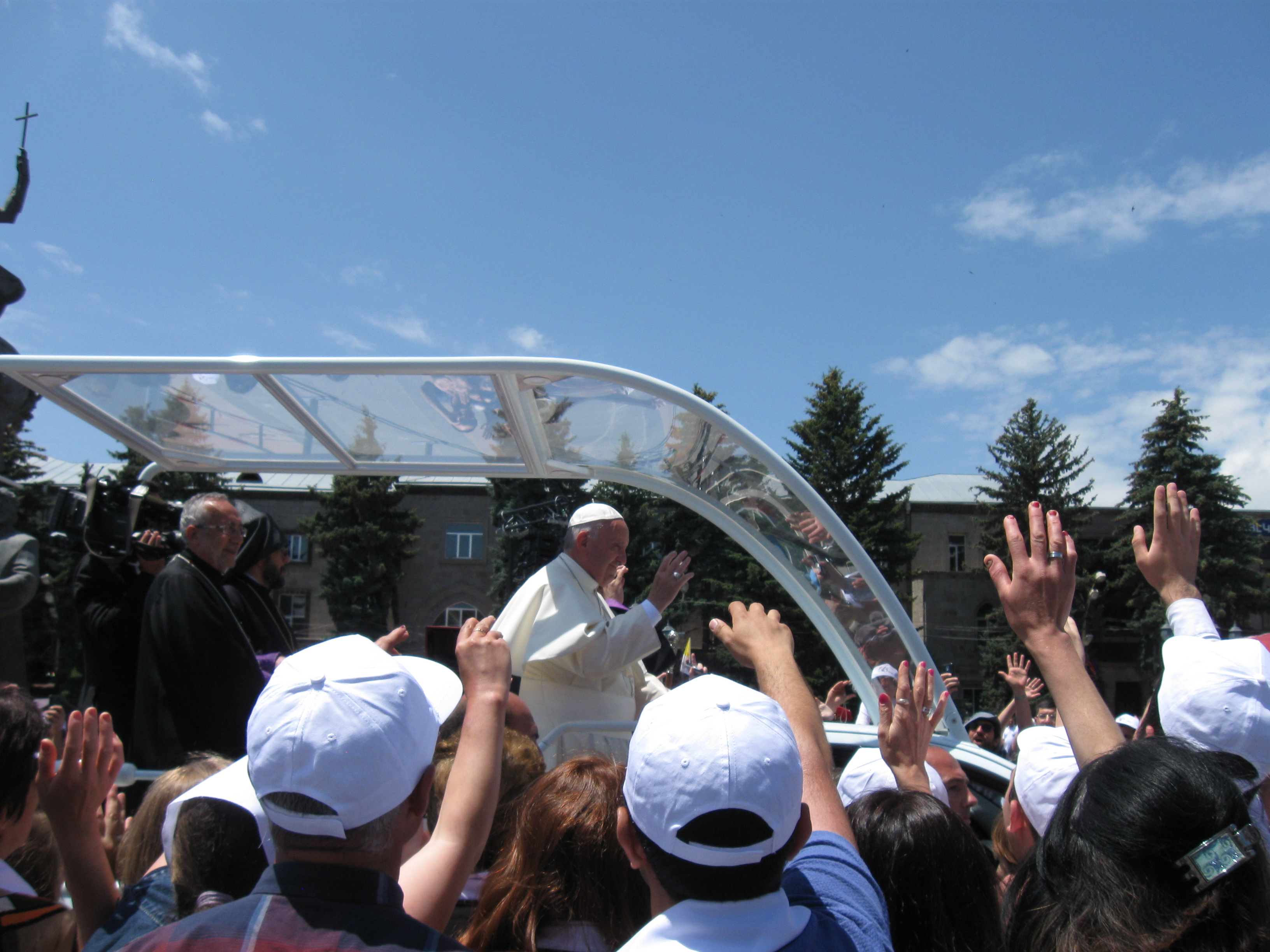 Pope Francis is visiting Gyumri.